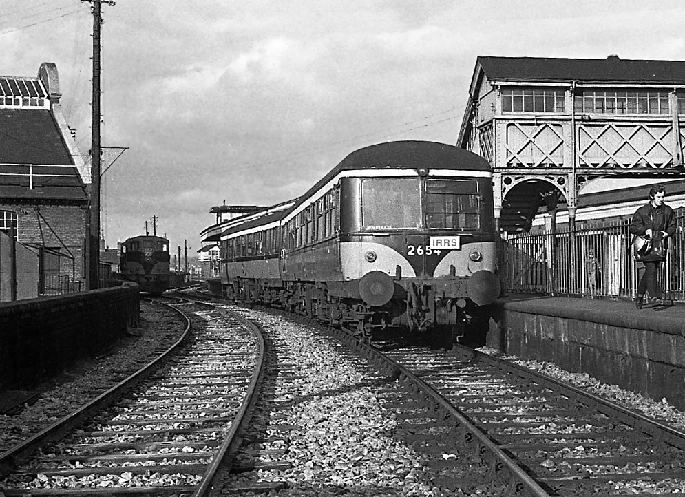 The final platform at Connolly is No. 7, once part of the City of Dublin Junction Railway and now used exclusively for DART electric suburban services. In pre-DART days, a pair of AEC/Park Royal railcars sit in Platform 7 with an Irish Railway Record Society special working. Note the long vanished wooden footbridge, which once linked the City of Dublin station to the GNR(I) platforms.